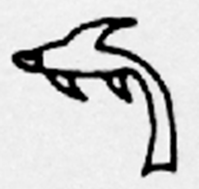 Hatmehyt, fish symbol on nome standard as the 16th nome of Lower Egypt